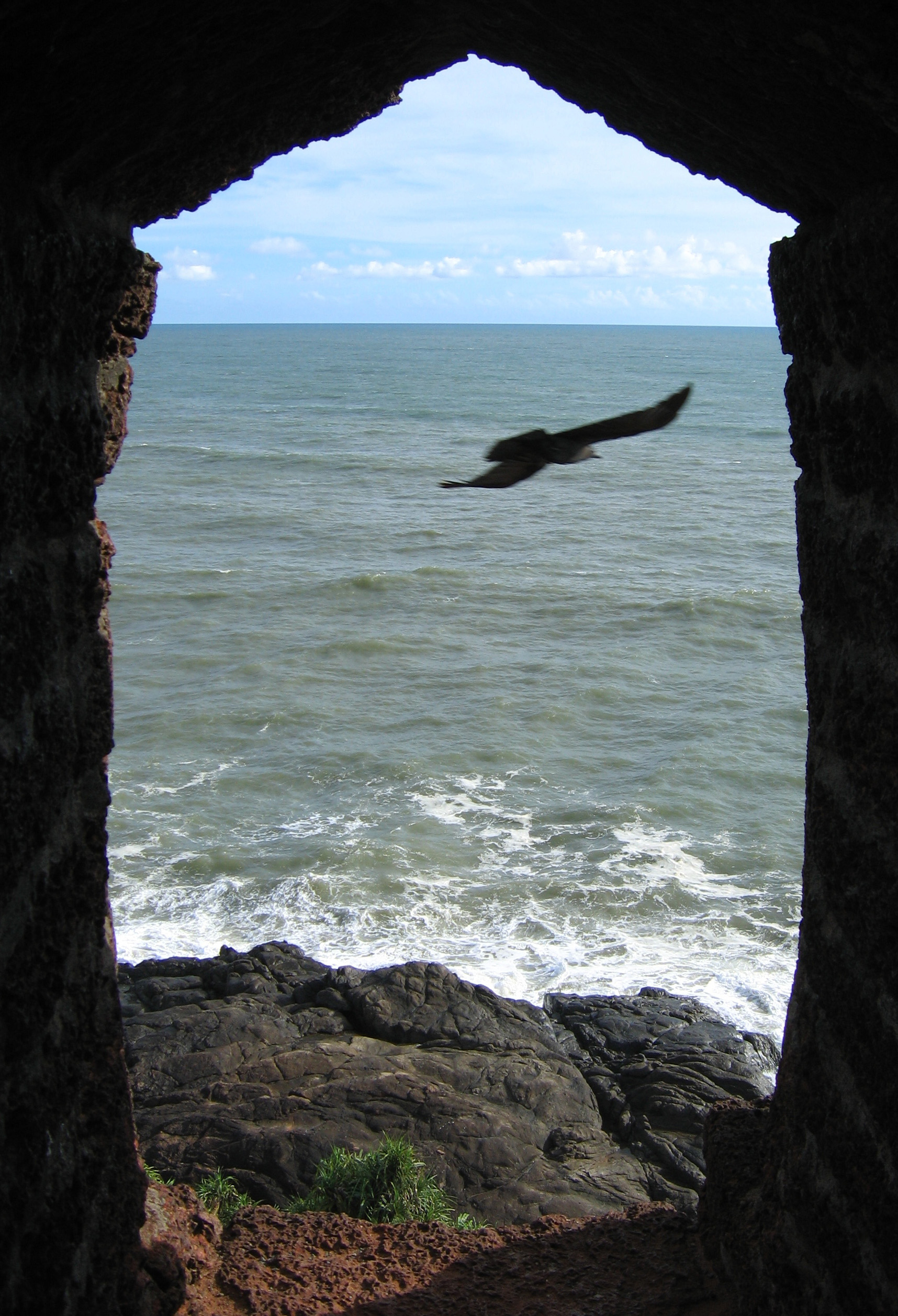 Bakel Fort Kasaragod views